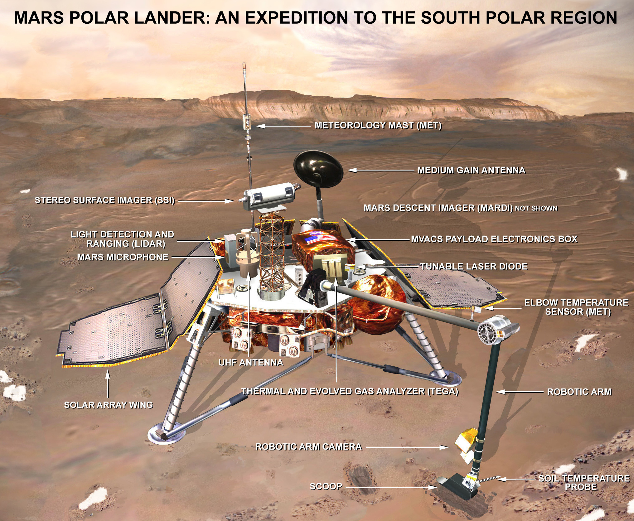 Labelled illustration of the Mars Polar Lander.